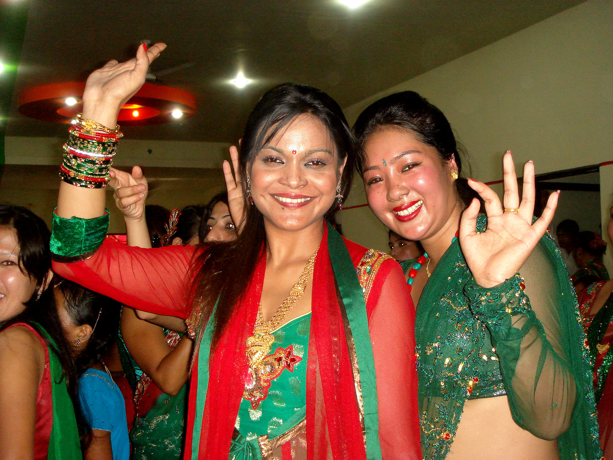 Singer Nisa sunar dancing the tij Program at Kathmandu